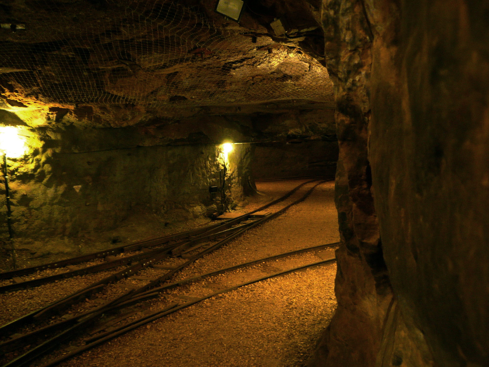 In the former iron mine near Aalen, now open to visitors.